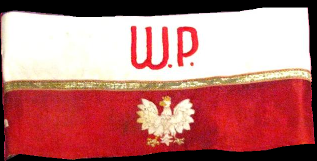 Band of Polish Home Army (Armia Krajowa)